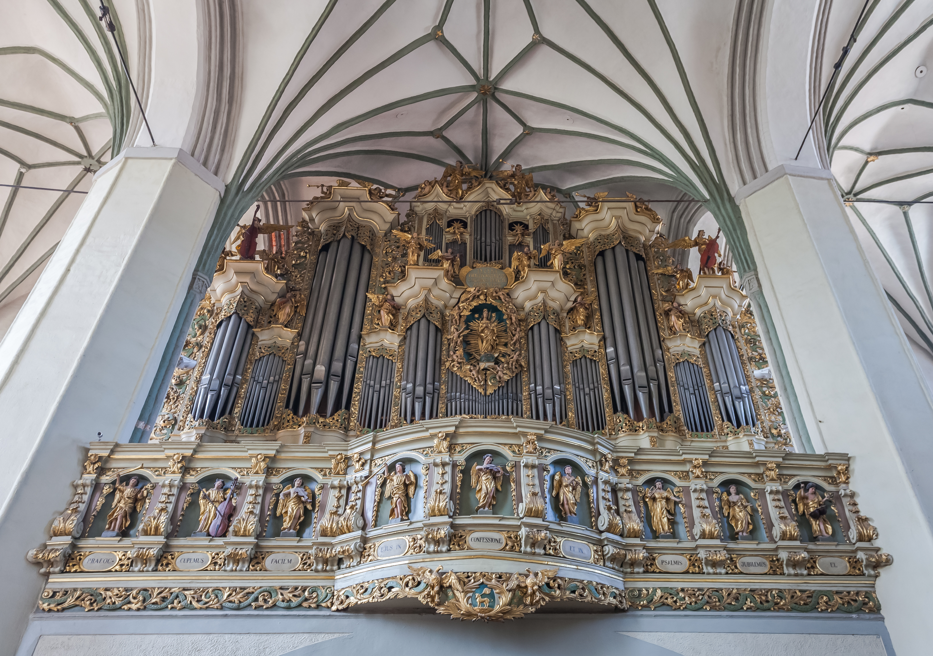 St. Nicholas church, Gdansk, Poland